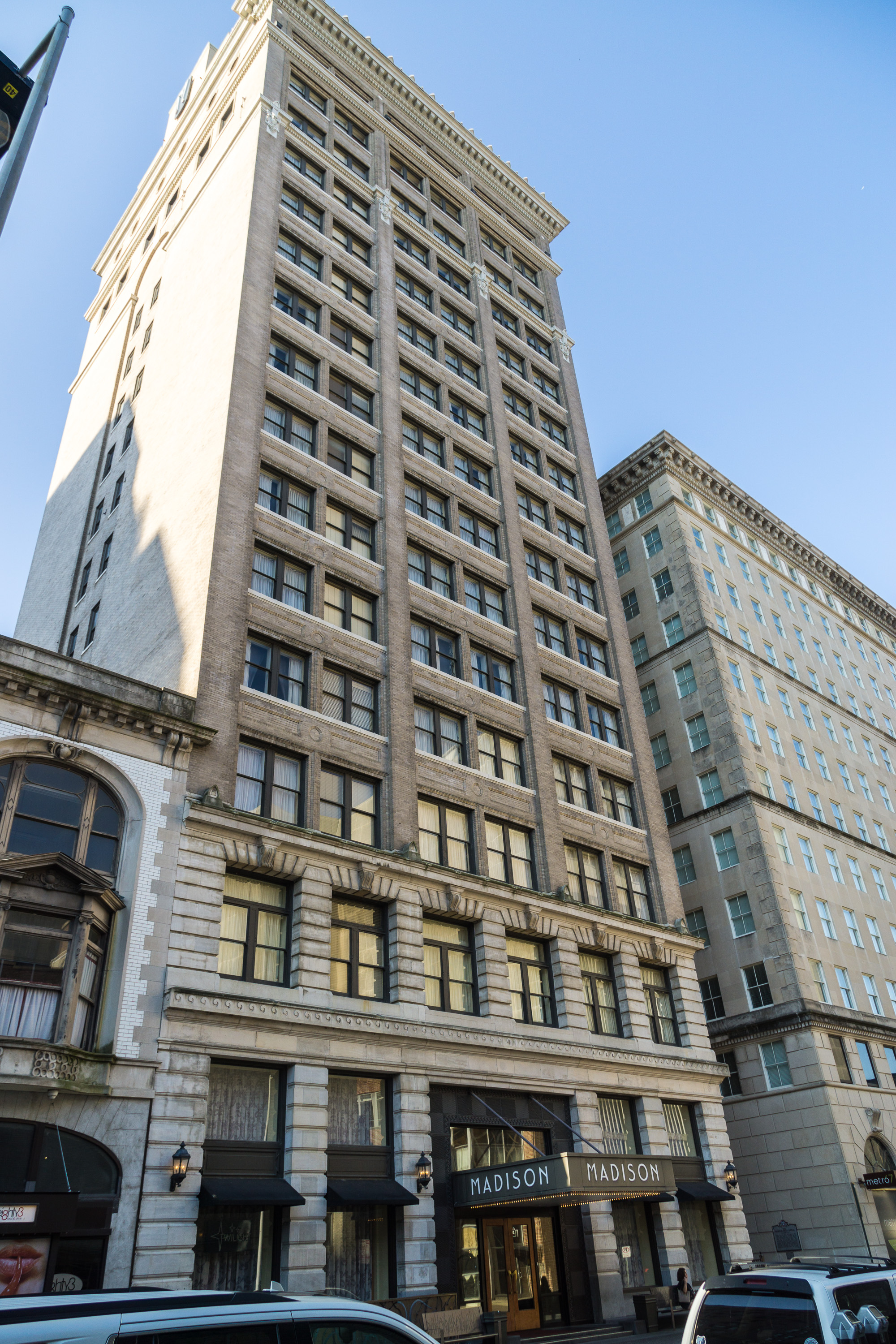 Madison Hotel, formerly Tennessee Trust Bank building. NRHP ID 82001732